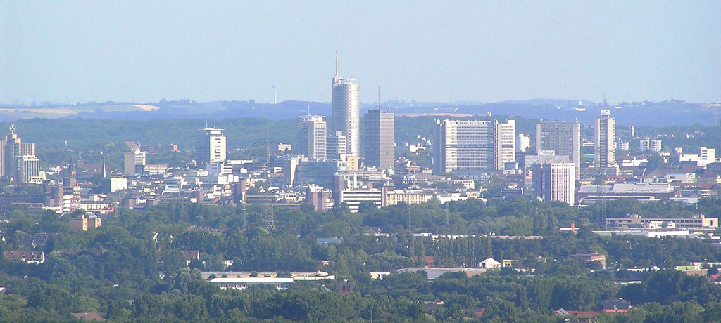 Panorama of Essen seen from Tetraeder, Bottrop (distance about 7km ~ 3,5 miles)